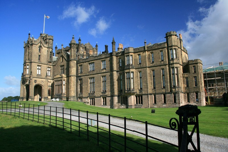 Allerton Castle. This building is used as a location in the tv movie "The Sign of Four" (1987) starring Jeremy Brett as Sherlock Holmes.